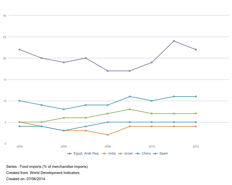 Egypt Food imports as percentage of all merchandise imports